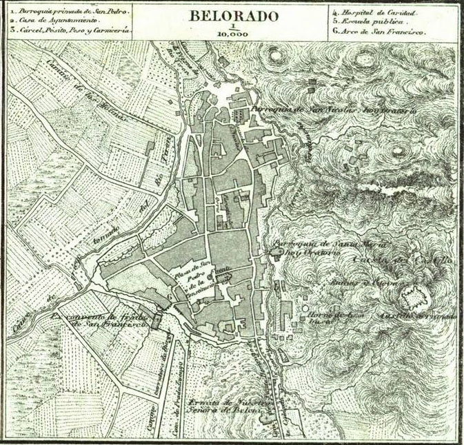 Map of Belorado cropped from the 1868 province of Burgos map by Francisco Coello